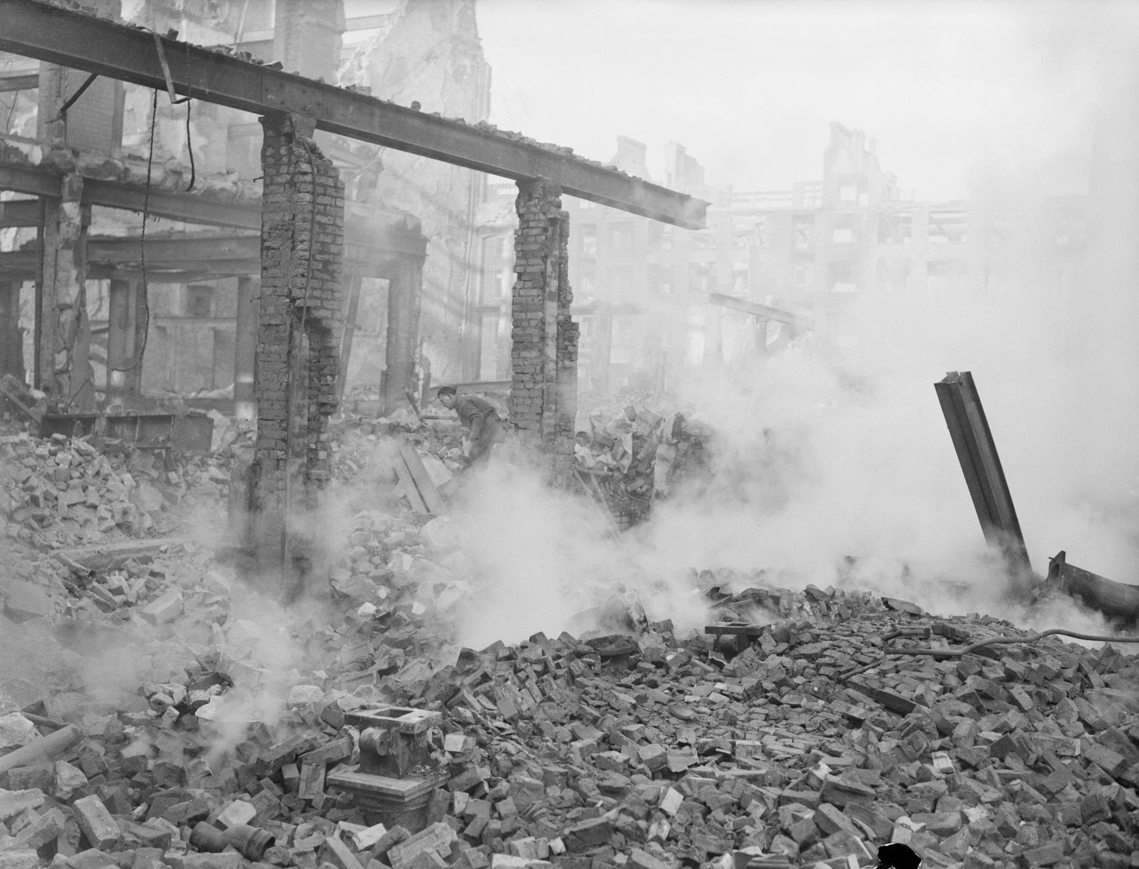 The British Army in the United Kingdom 1939-45 Men of the Auxiliary Military Pioneer Corps (AMPC) search buildings demolished by bombing in Fore Street in the City of London, 3 January 1941.